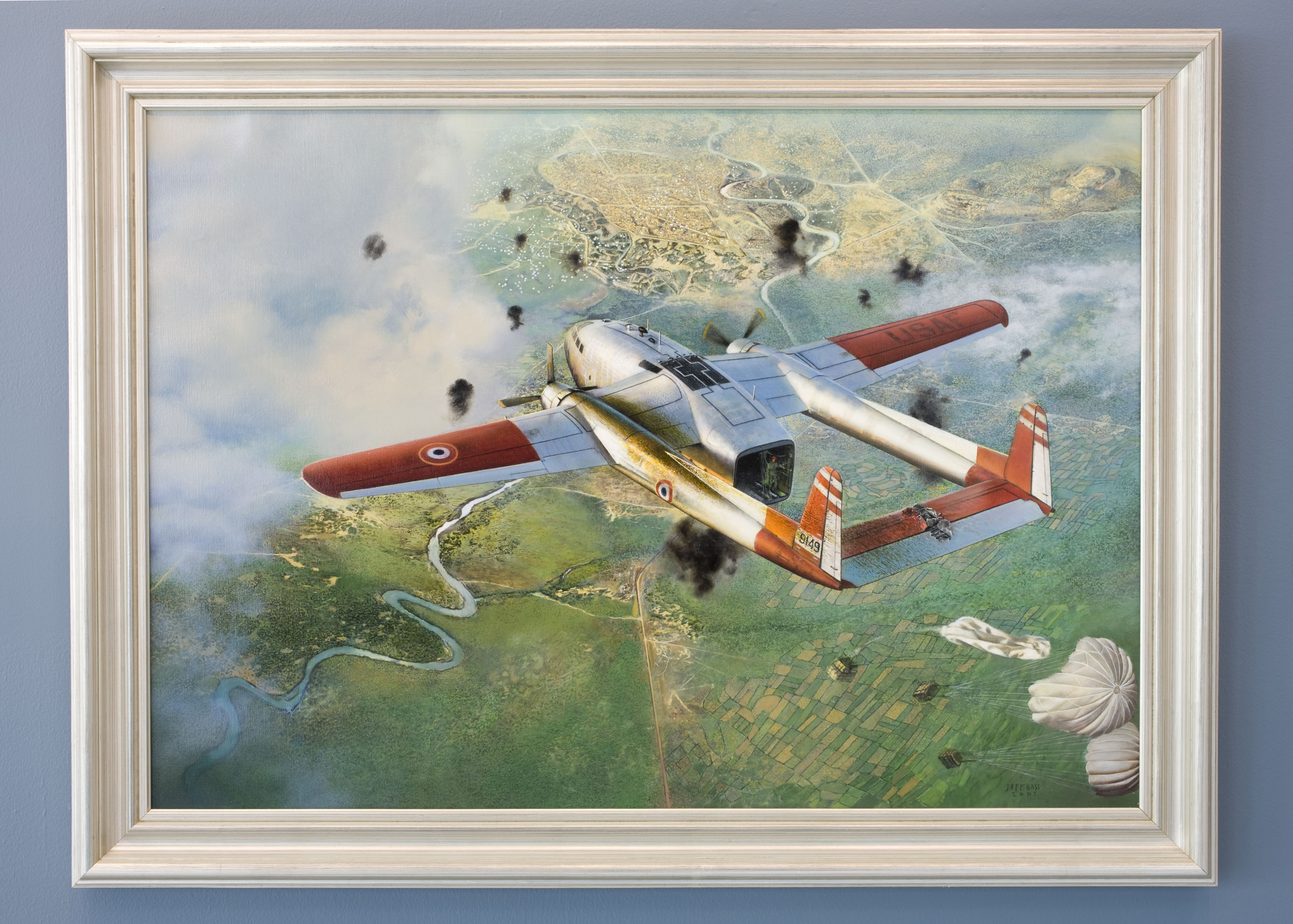 by Jeffrey W. Bass Oil on Canvas, 2006 Donated by the Fairchild Corporation This painting commemorates air operations of Civil Air Transport (CAT, an Agency proprietary) and its CIA contract pilots in support of French forces at Dien Bien Phu during the final days of the conflict between the French and Viet Minh in 1954. In Fairchild C-119s with US Air Force markings hurriedly painted over with French Air Force roundels, 37 CAT pilots volunteered to fly supplies from the French airbase at Haiphong to the battlefield near Vietnam’s border with Laos. For more information on CIA history and this painting please visit